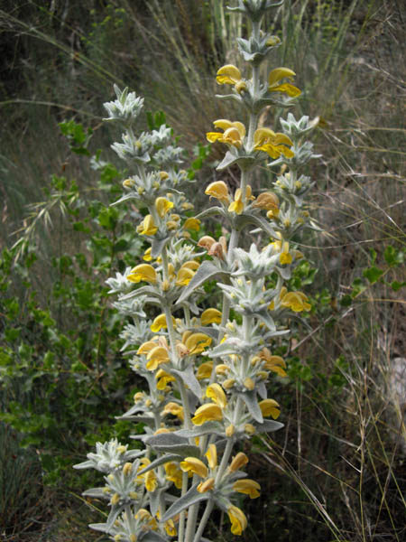 Phlomis crinita